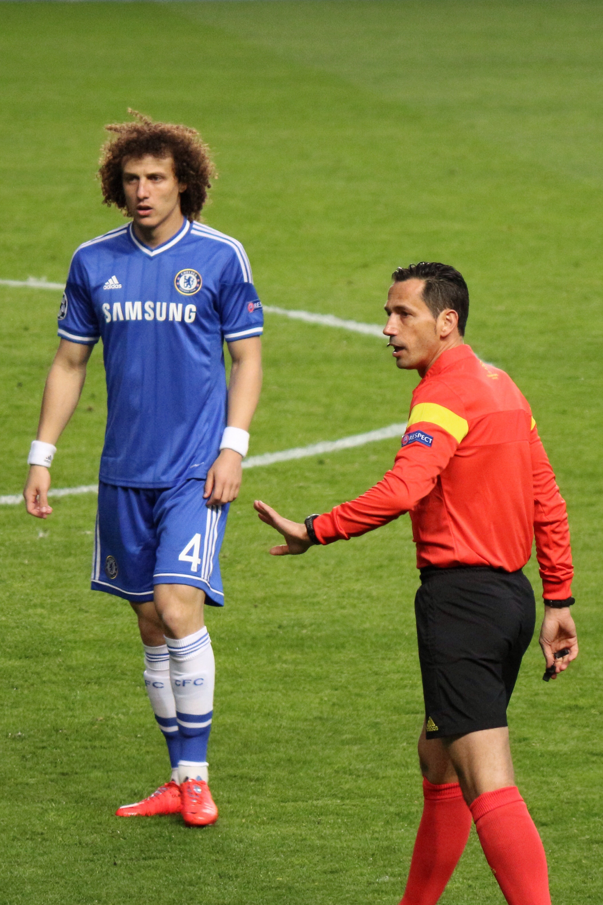 Chelsea 2 PSG 0